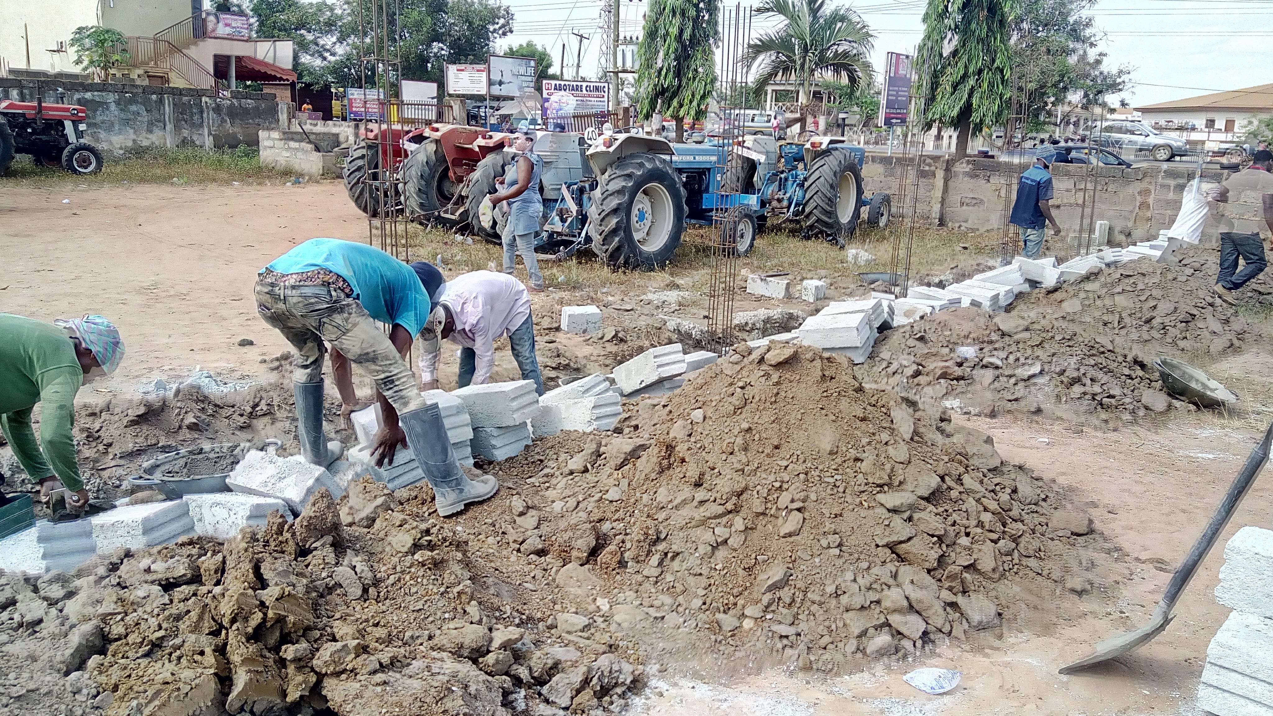 This men were dividing a portion of land being bought and they will be paid daily. No machines just man power. Felt their passion. Singing and working. They just need that daily cash. This is an image with the theme "Play" from: Ghana